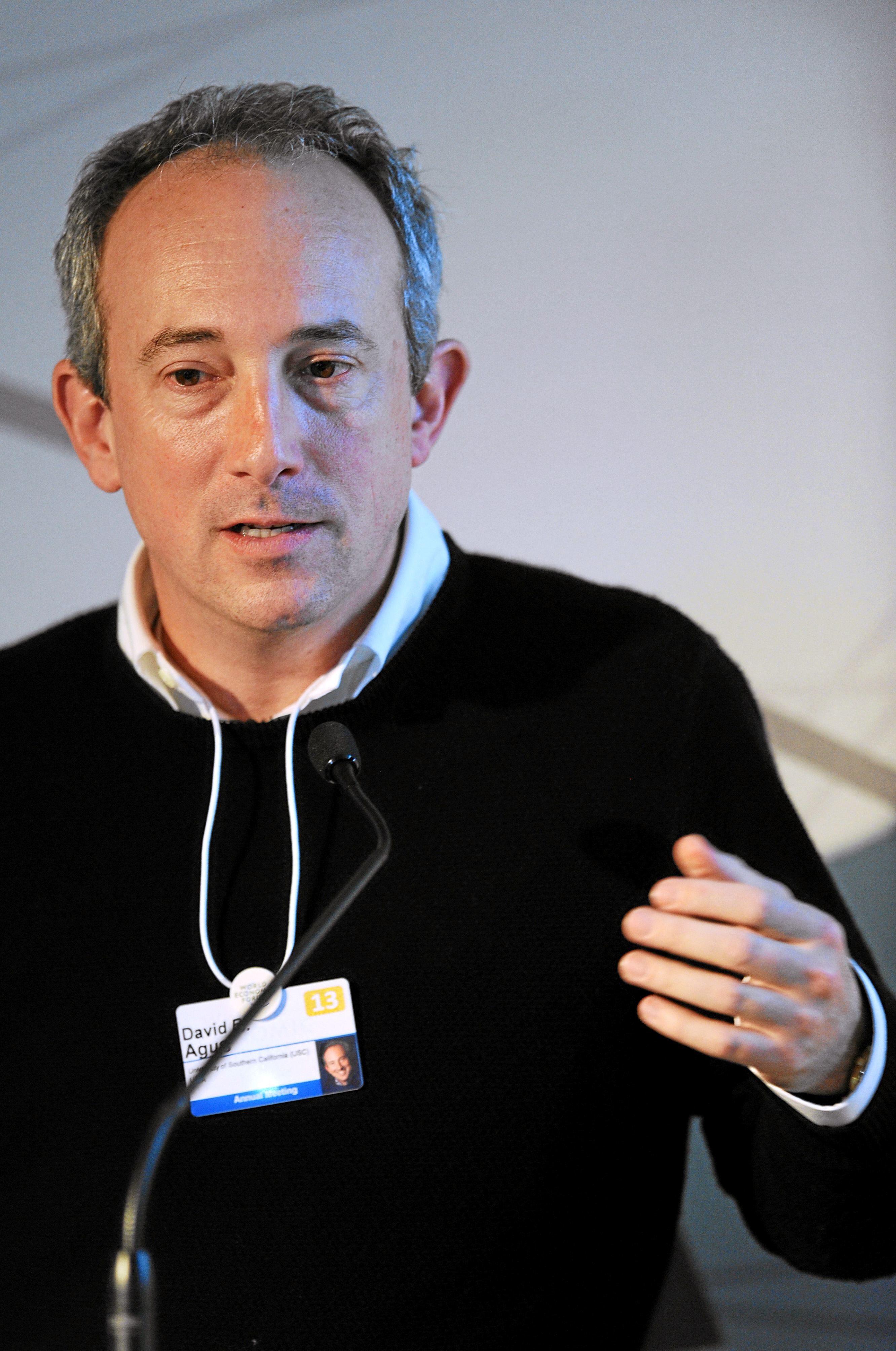 DAVOS/SWITZERLAND, 25JAN13 - David B. Agus, Professor of Medicine and Engineering, USC Center for Applied Molecular Medicine, USA; Global Agenda Council on Personalized & Precision Medicine reflects during the session 'Global Risks 2013: The Dangers of Hubris to Human Health' at the Annual Meeting 2013 of the World Economic Forum in Davos, Switzerland, January 25, 2013. . . Copyright by World Economic Forum. . Michael Wuertenberg